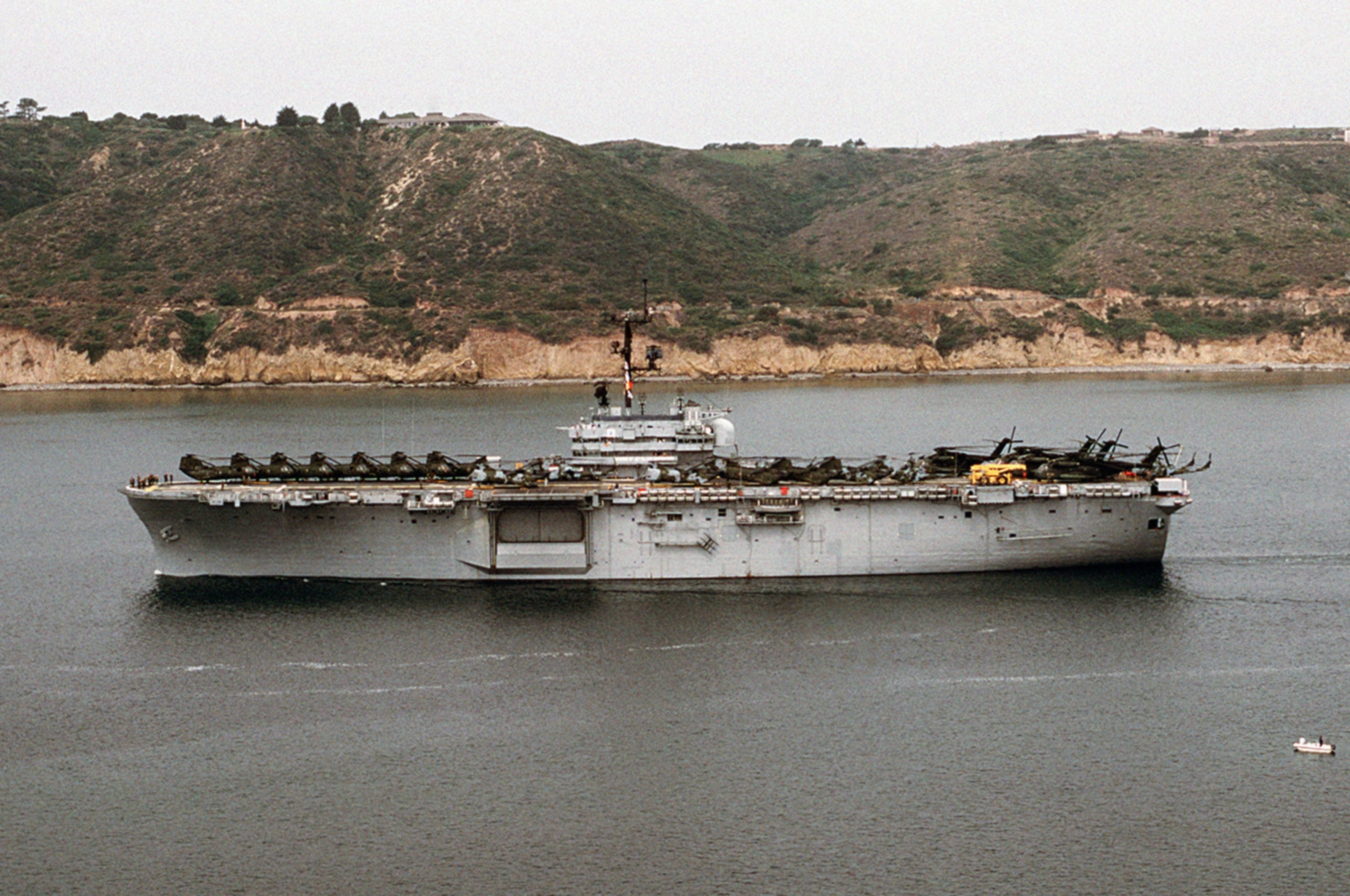 A port beam view of the amphibious assault ship USS NEW ORLEANS (LPH 11) underway. CH-53 Sea Stallion and CH-46 Sea Knight helicopters line the flight deck.